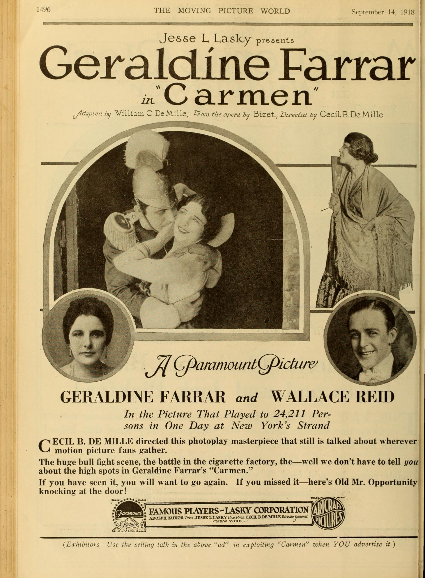 Advertisement in Moving Picture World for the film Carmen (1915).